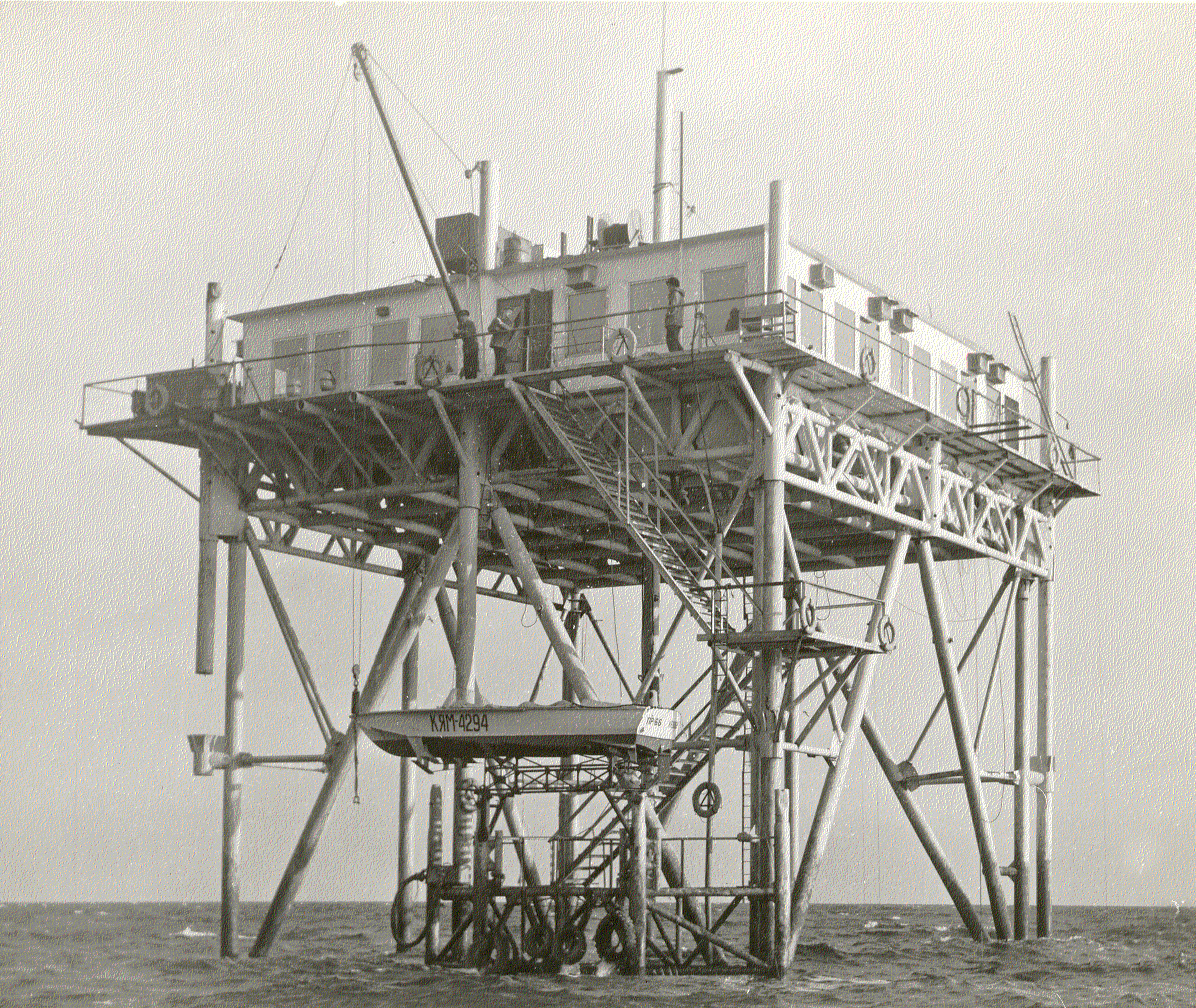 MHI research platform